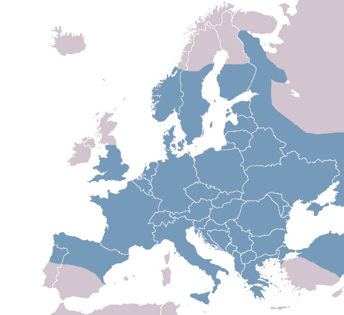 Distribution of the large skipper (Ochlodes sylvanus)